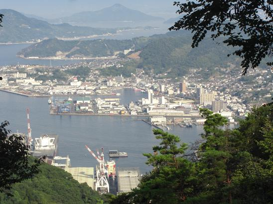 The Port of Kure seen from near the summit of Mount Yasumi (501m).